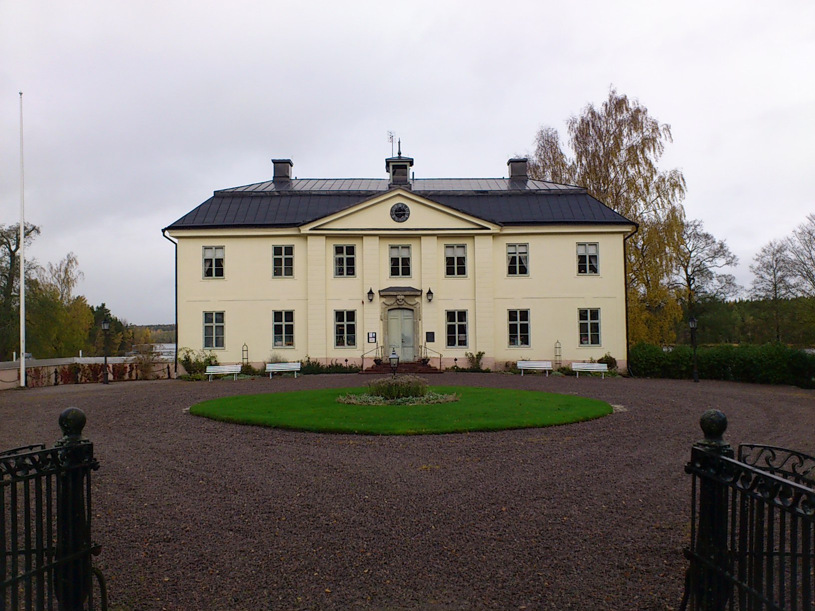 The hotel and restaurant Svartå herrgård, Sweden